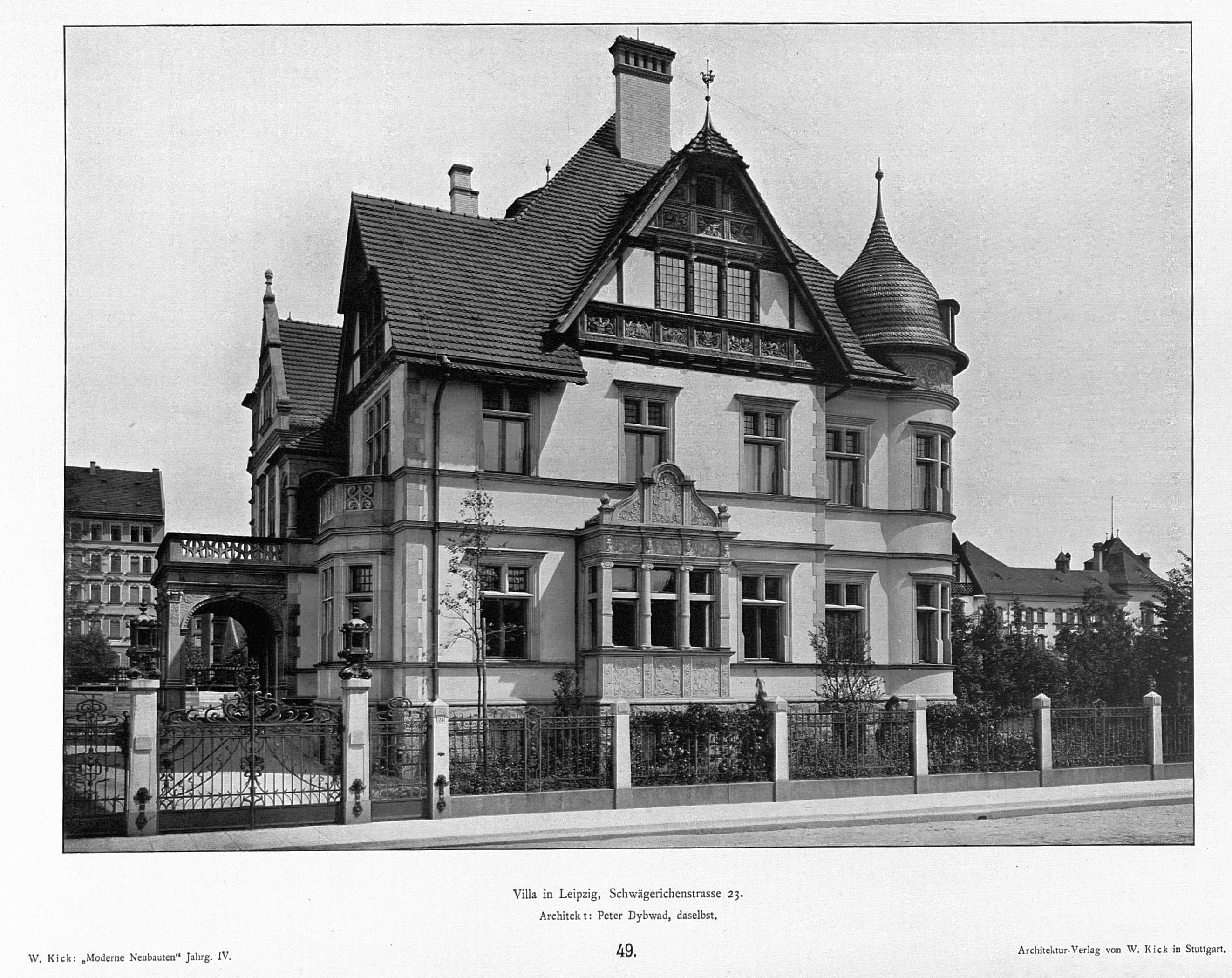 Villa in Leipzig, Schwägerichenstr. 23, Architekt Peter Dybwad Leipzig